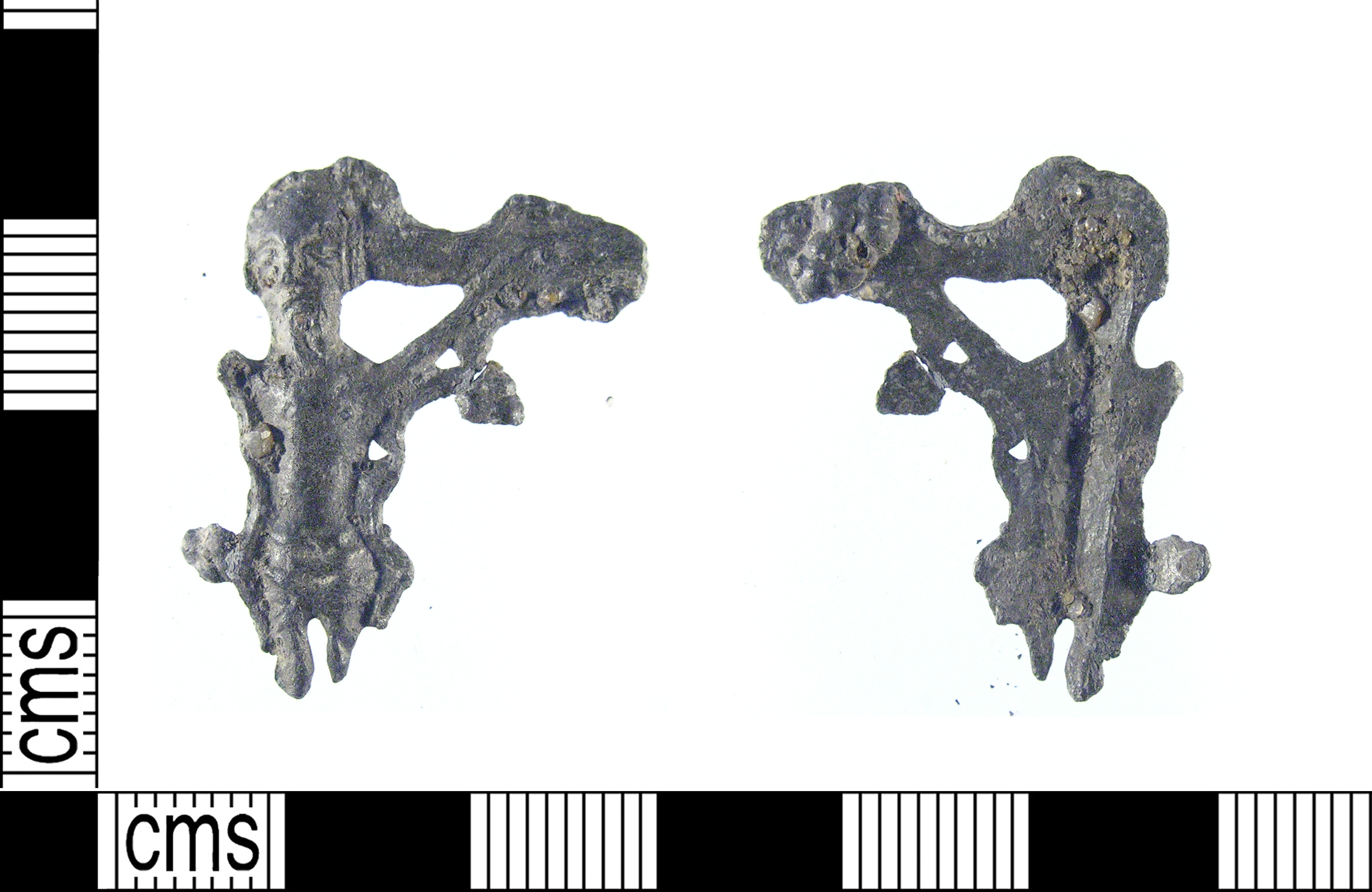 A fragment of a medieval lead alloy pilrgim badge from the Rood of Grace at Boxley Abbey dating to the 15th century. The fragment contains the torso, head and part of the legs of Christ, with a single arm (left) nailed to the cross. There are trefoil decorations at the elbow and the waist. The reverse is hollowed out at the torso and flat in the rest. There is no evidence of the pin or catchplate on the reverse. Rood of Grace badges are depicted in Spencer (1998, no. 180), and the convex chest and stomach of Christ of this badge is similar to them. Spencer dates these badges to the 15th century, so a similar date is suggested. Dimensions: length: 28.72 mm; width: 21.52 mm; thickness: 2.82 mm; weight: 1.97g. Reference: Spencer, B. 1998. Pilgrim Souvenirs and Secular Badges. The Stationery Office, London.